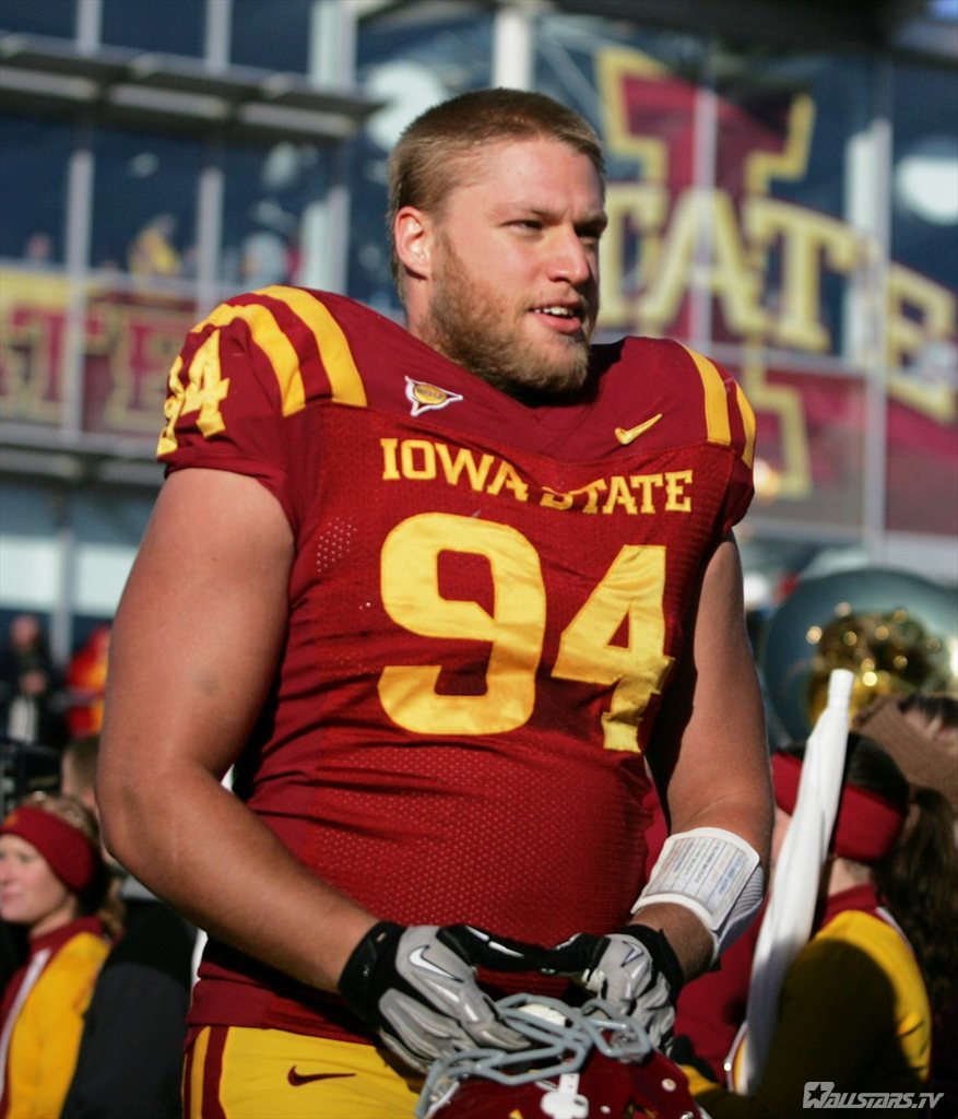 Iowa State Cyclones defensive end, Jake McDonough, in 2012.